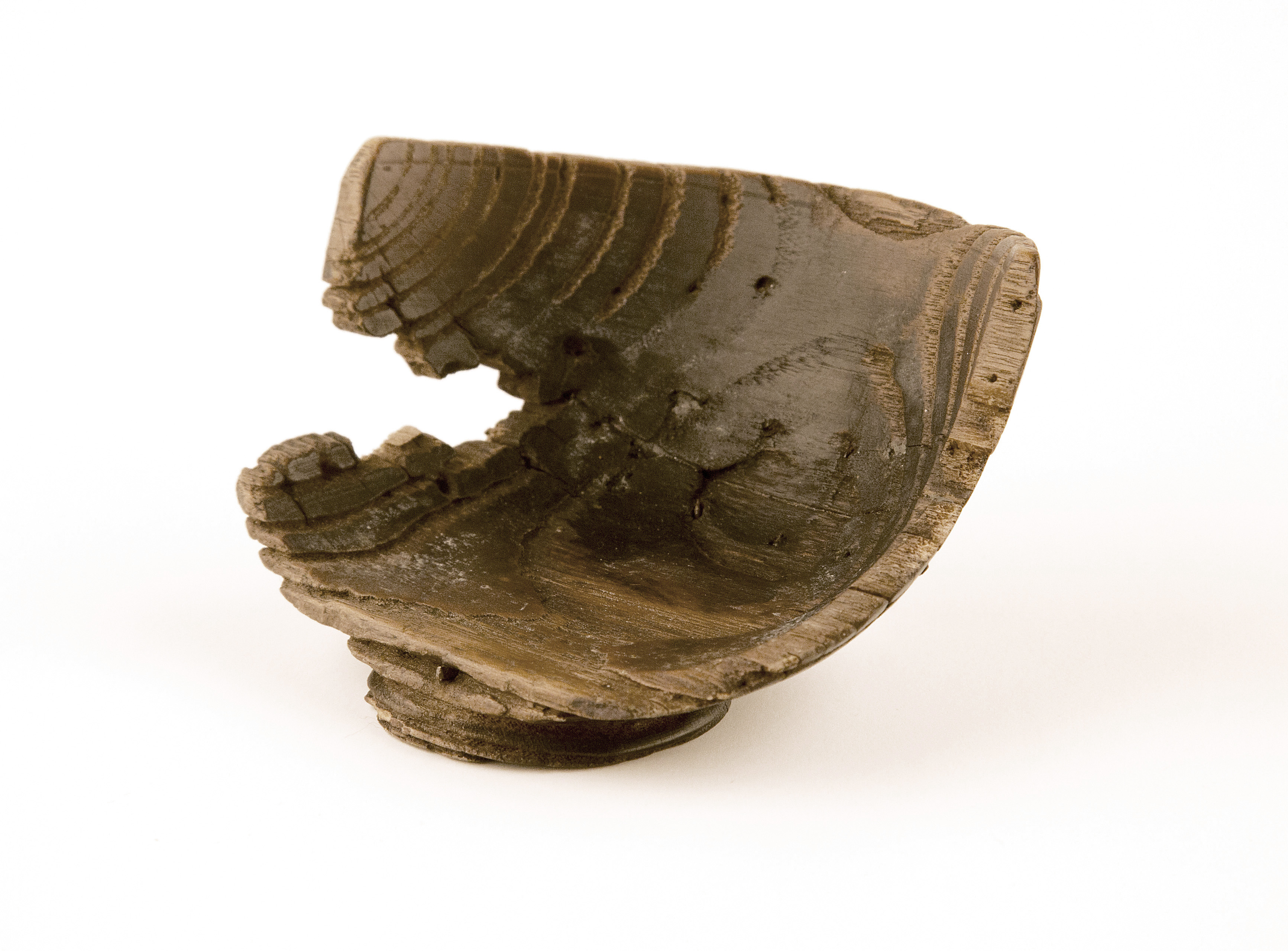 The Nanteos Cup is a medieval wood mazer bowl traditionally believed to have been crafted from the cross of Christ.